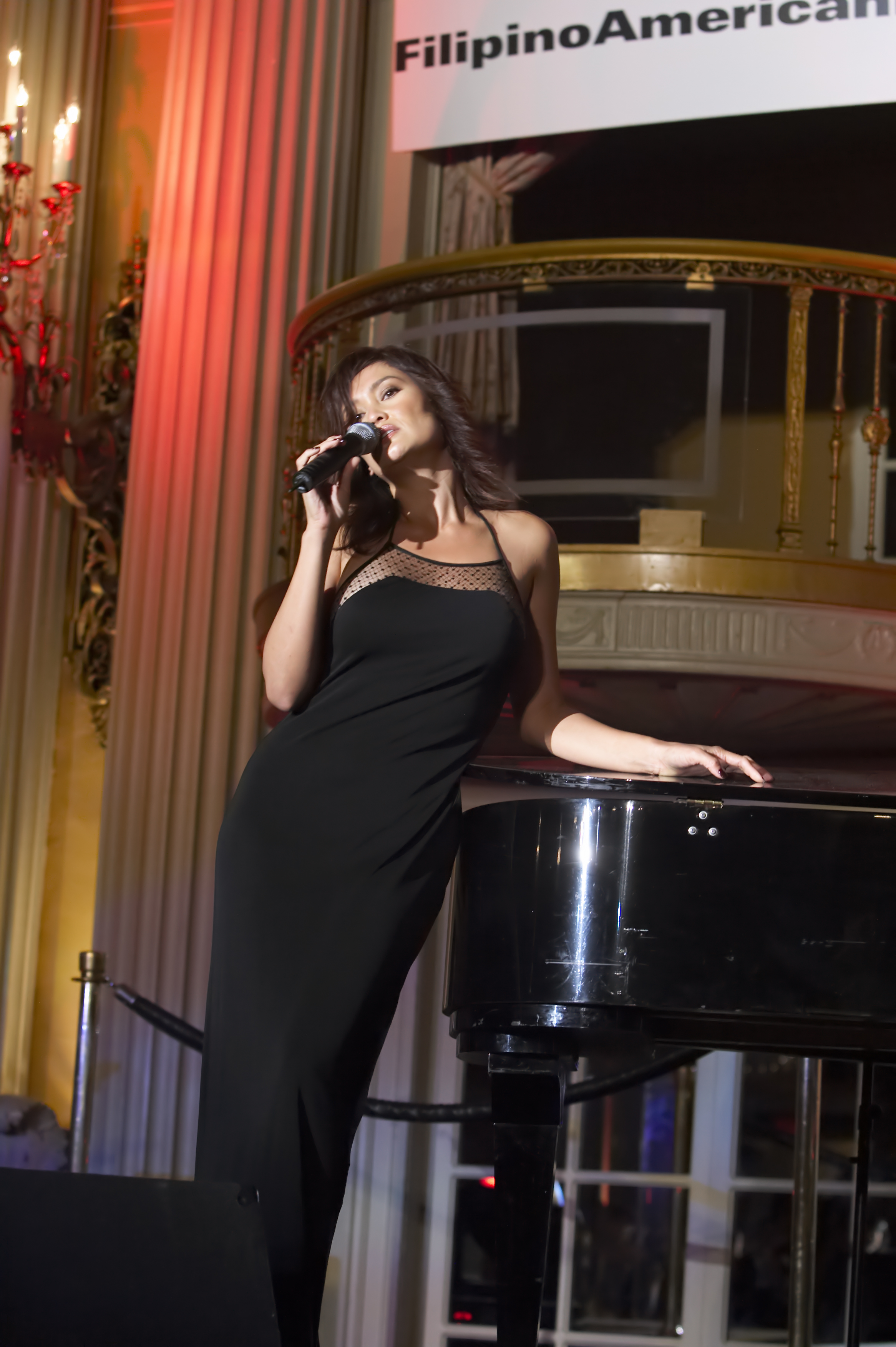 Tia Carrere sings at the Filipino American Library Spirit Awards and Dinner GALA in Los Angeles, California.